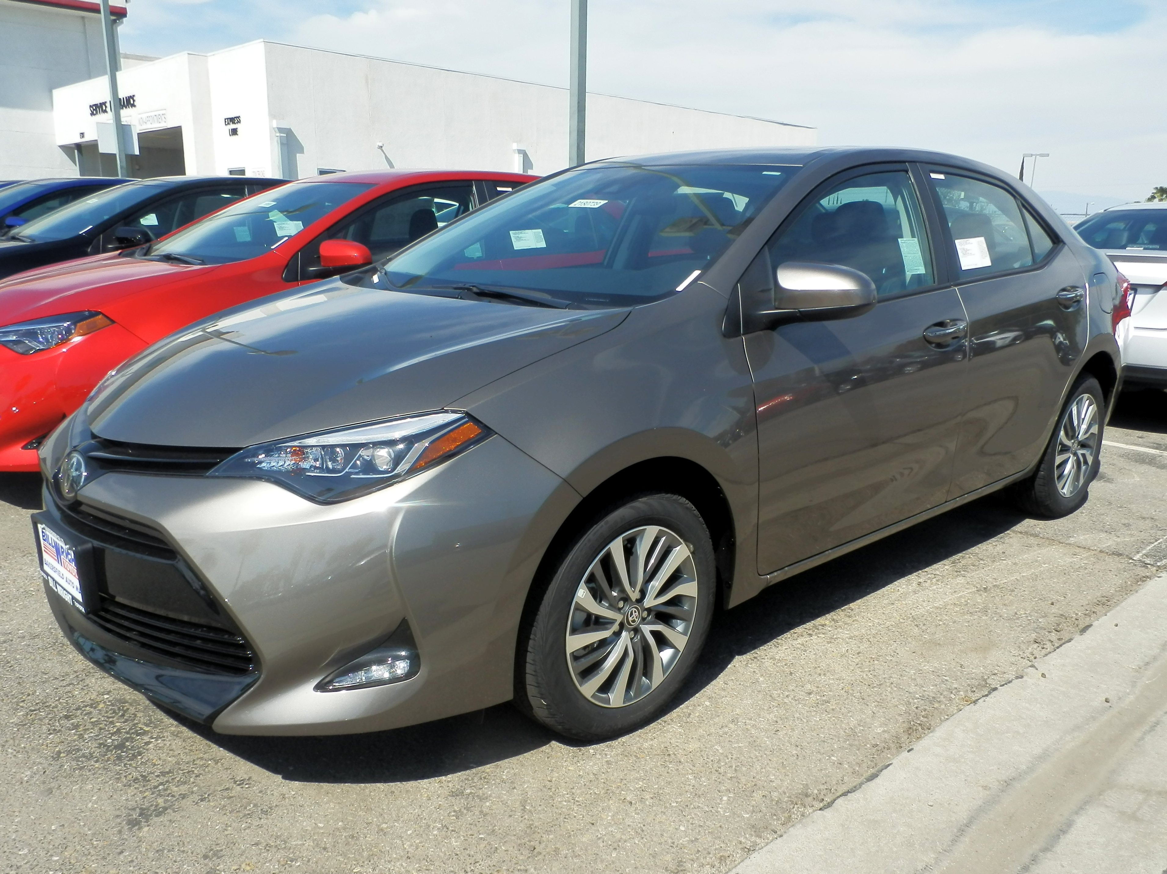 Toyota Corolla in Bakersfield